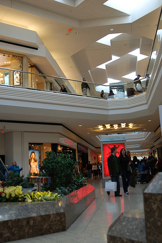 General internal view of Woodfield Mall as seen from the first level.